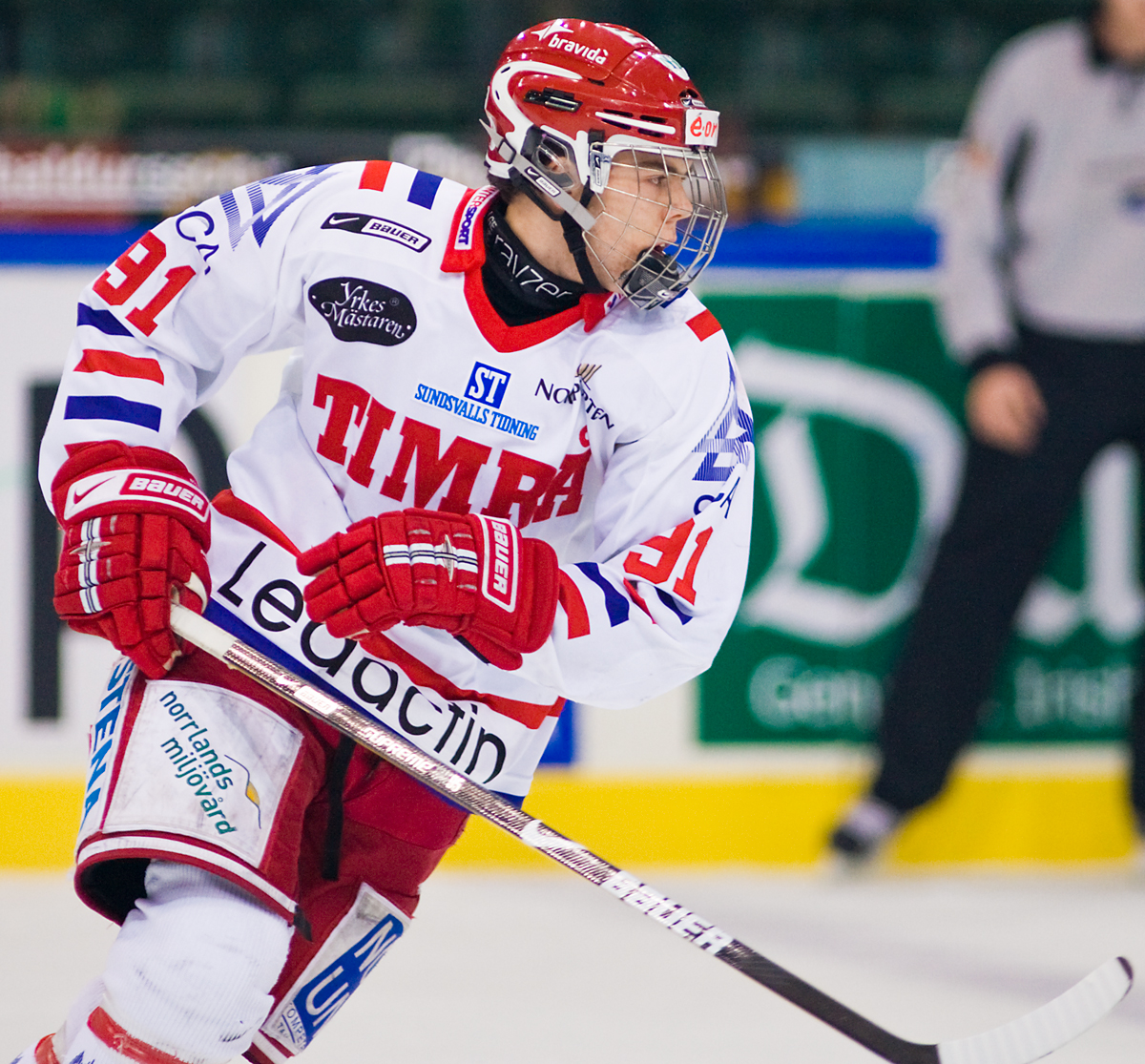 Magnus Svensson Pääjärvi of Timrå IK in Elitserien, during an away game against Frölunda HC in Scandinavium, Gothenburg, on November 13, 2008.